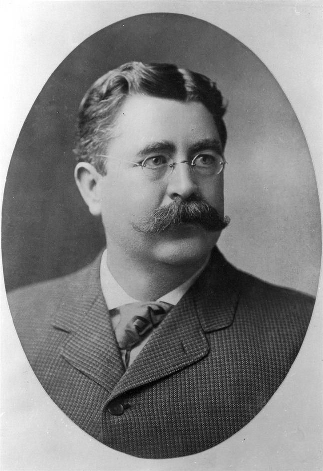 PJ Kennedy around 1900.